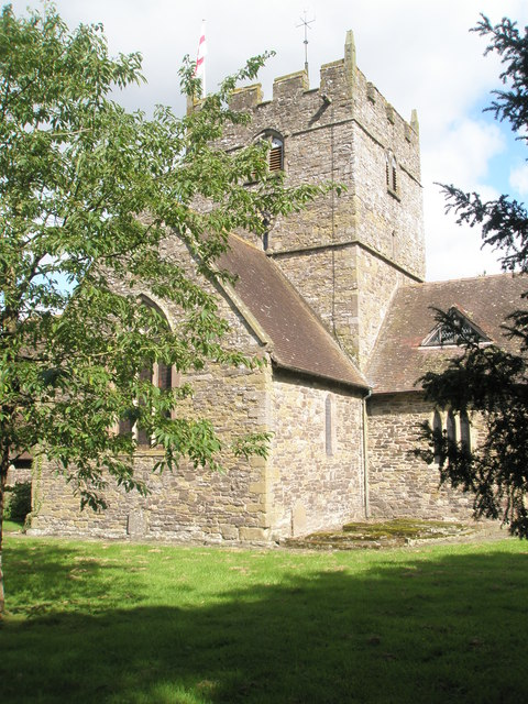 The tower of Holy Trinity, Wistanstow